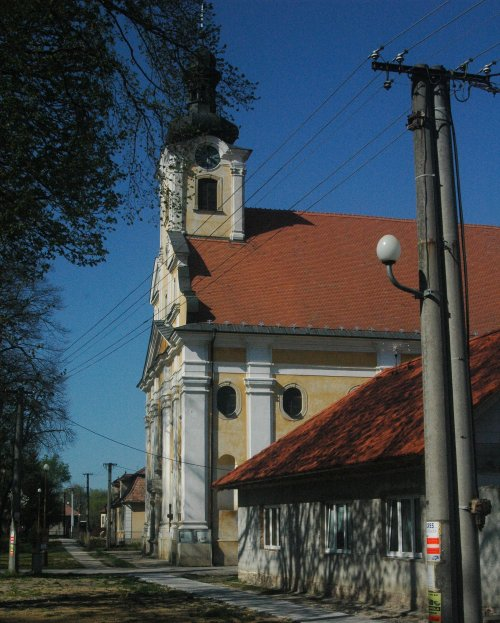 Jablonica, Church